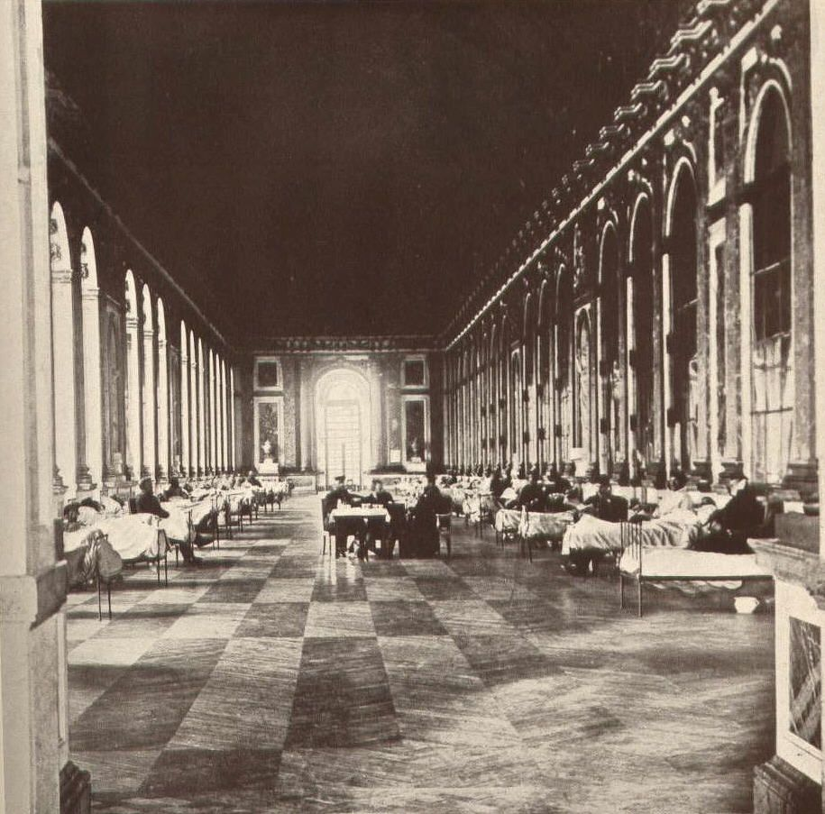 Versailles (Galerie des Glaces), 1870